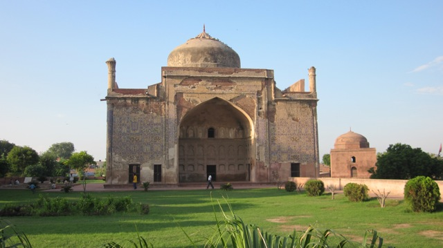 Chini Ka Rauza, milestone in Indo-Persian architecture, Agra, India, 2010. (Photo by Eldar Mamedov, Persian Dutch Network)